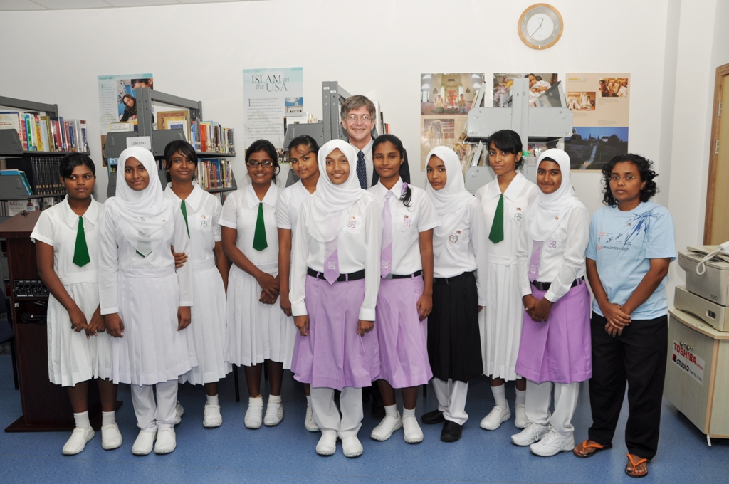 U.S. Deputy Secretary of State James Steinberg poses for a photo with a Maldivian girls soccer team that recently visited the United States in Male, Maldives, on January 29, 2011. [State Department photo/ Public Domain]